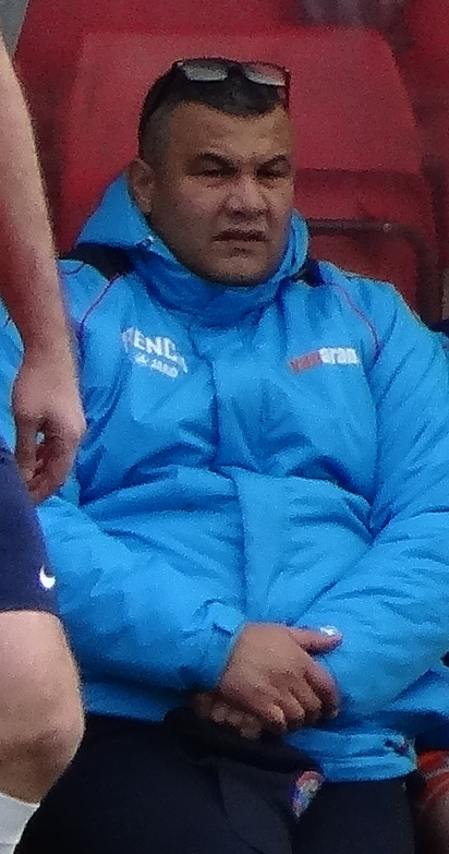 Hakan Hayrettin at Braintree Town's match against York City at Bootham Crescent, York on 1 April 2017